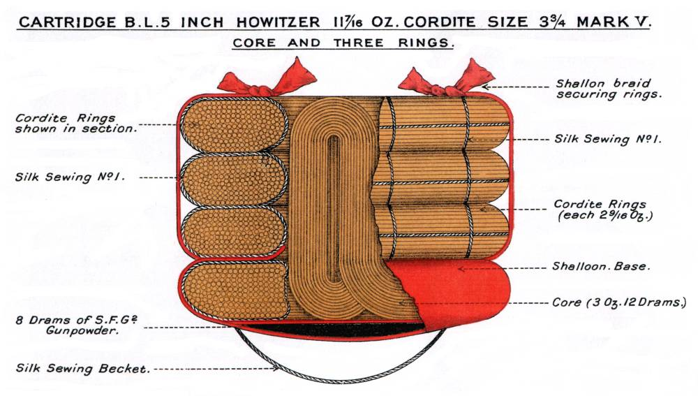 Diagram of 11 oz 7 drams Cordite I cartridge Mk V, for BL 5 inch howitzer. Cartridge is for 50-lb shell. Length 2.8 inches, diameter 3.84 inches. The core consists of 3 oz 12 drams Cordite size 3 3/4, about 7 feet long, twisted into shape and secured with silk sewing. Each of the 3 rings consists of 2 oz 9 drams cordite. The igniter consists of 8 drams S.F.G. 2 powder in 4 compartments. The becket of silk sewing attached to the base facilitates withdrawing the cartridge from its silk cloth cover.